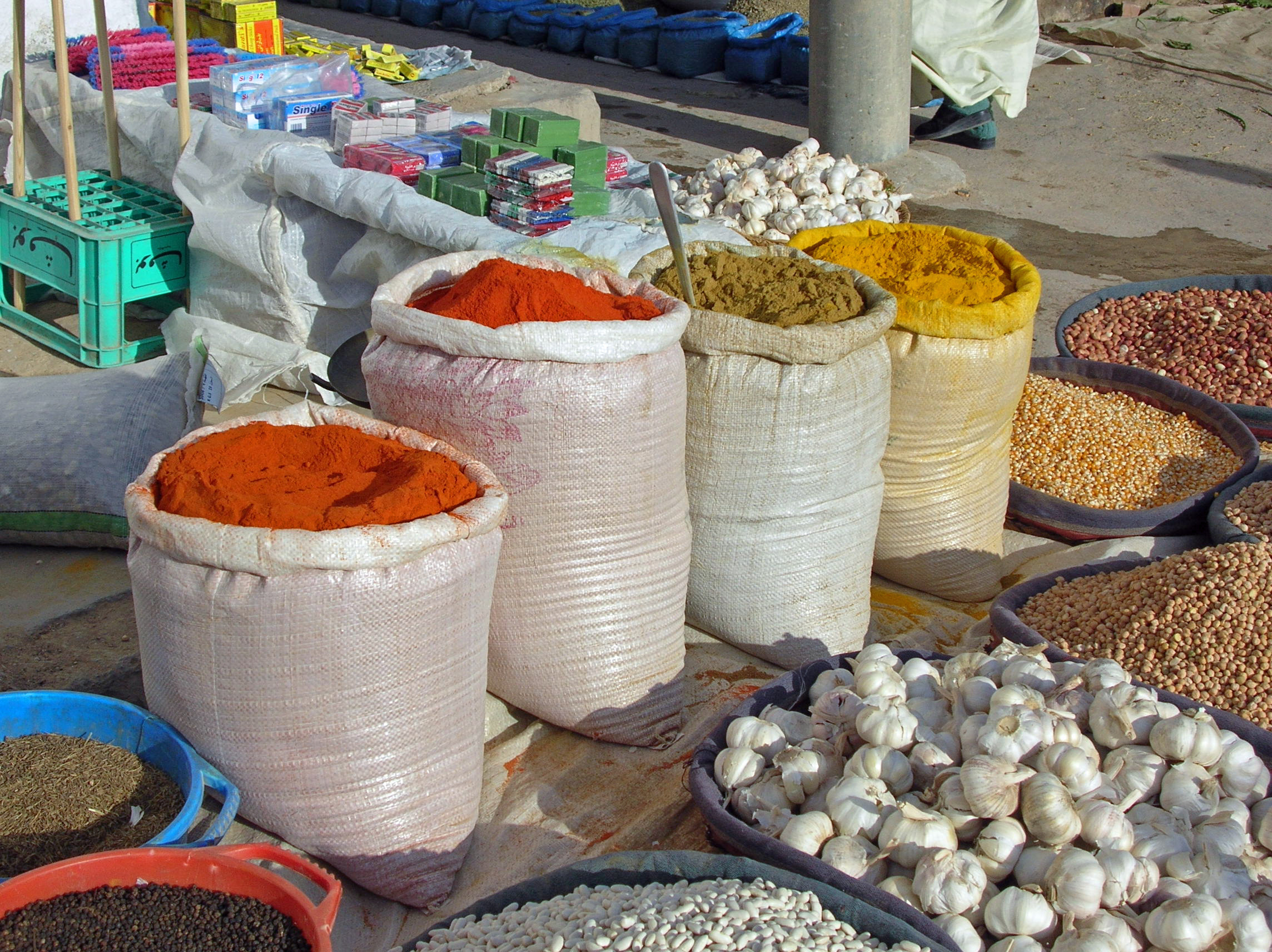 Spice market in Medenine, Tunisia